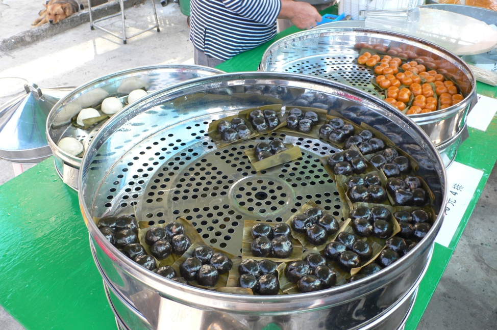 Cha Kwo with Chinese Feverine Filling, sold in Kat O, an outlying island in Northern District, Hong Kong. 中文（香港）: 雞屎籐味茶果，攝於香港吉澳。